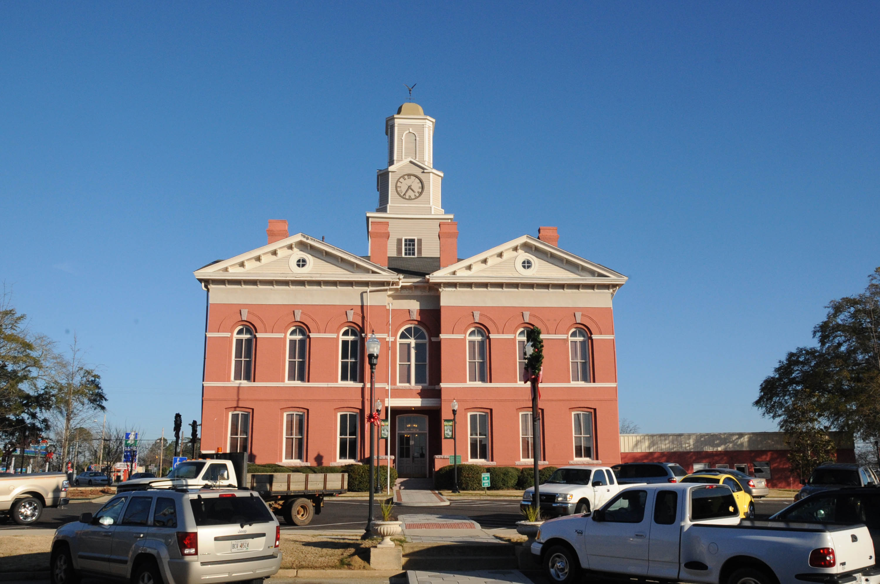 BUILT IN 1895 COLONIAL REVIVAL STYLE